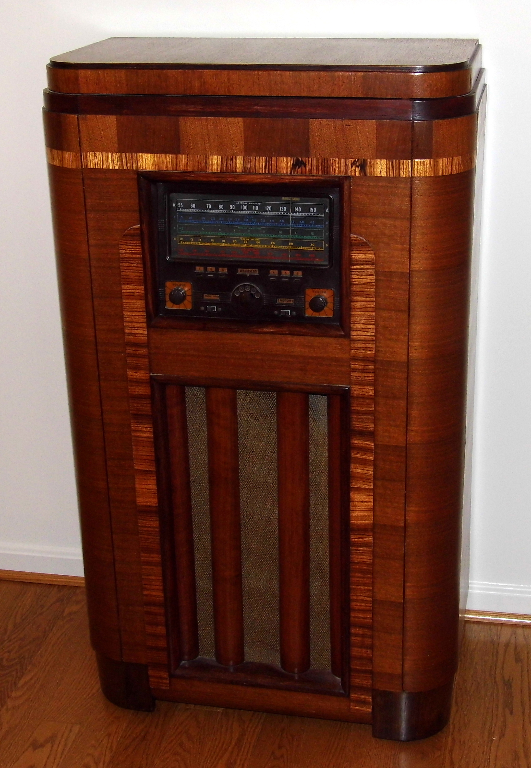 Check out the site for more information on Midwest radios. Auction Item 197